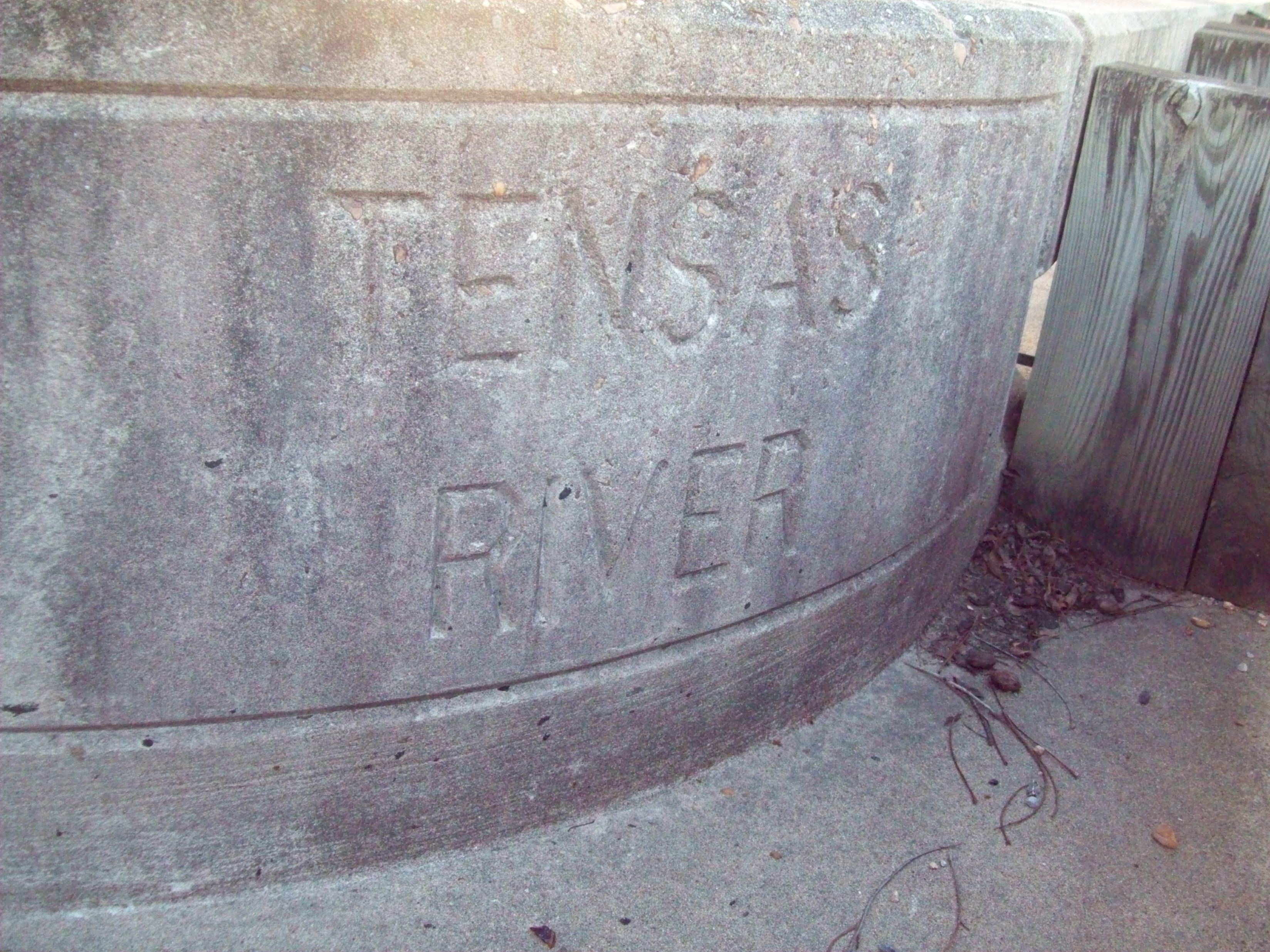 This endcap has the Tensas River name stamped into it. This bridge is on U.S. 80